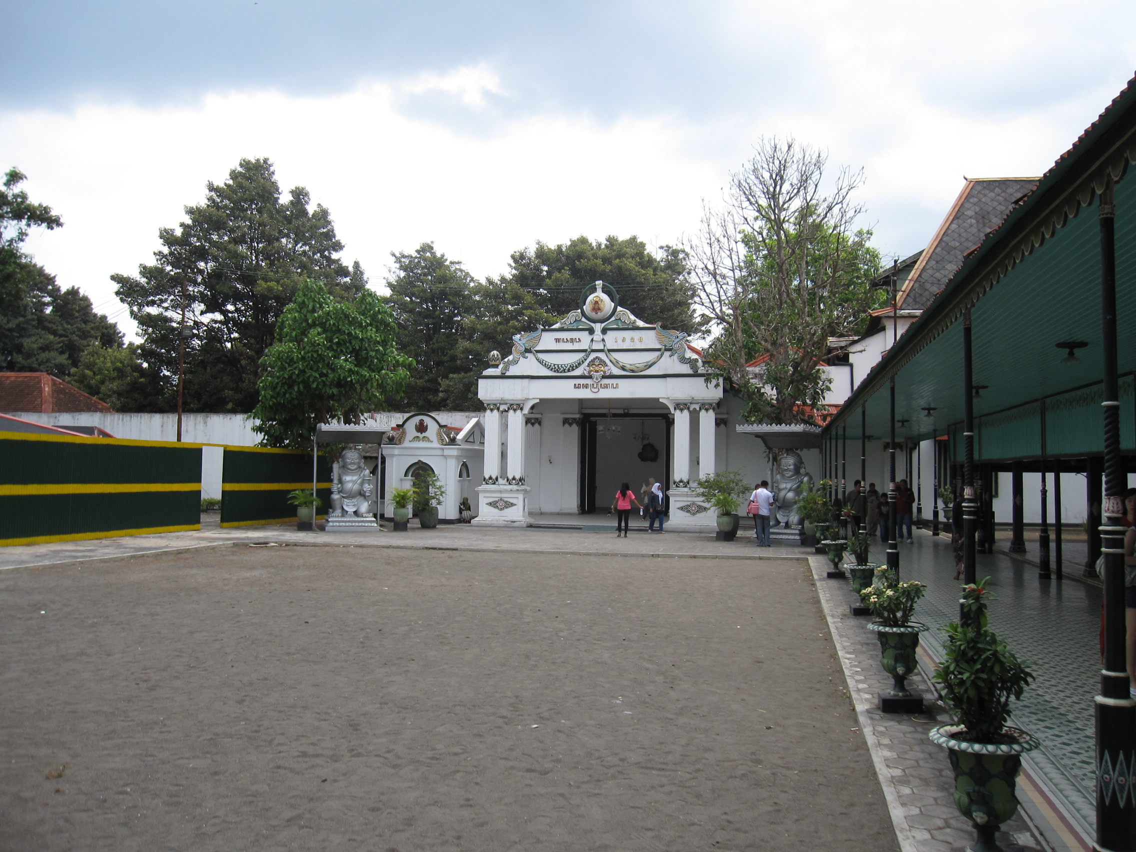 Kraton of Yogyakarta, Indonesia